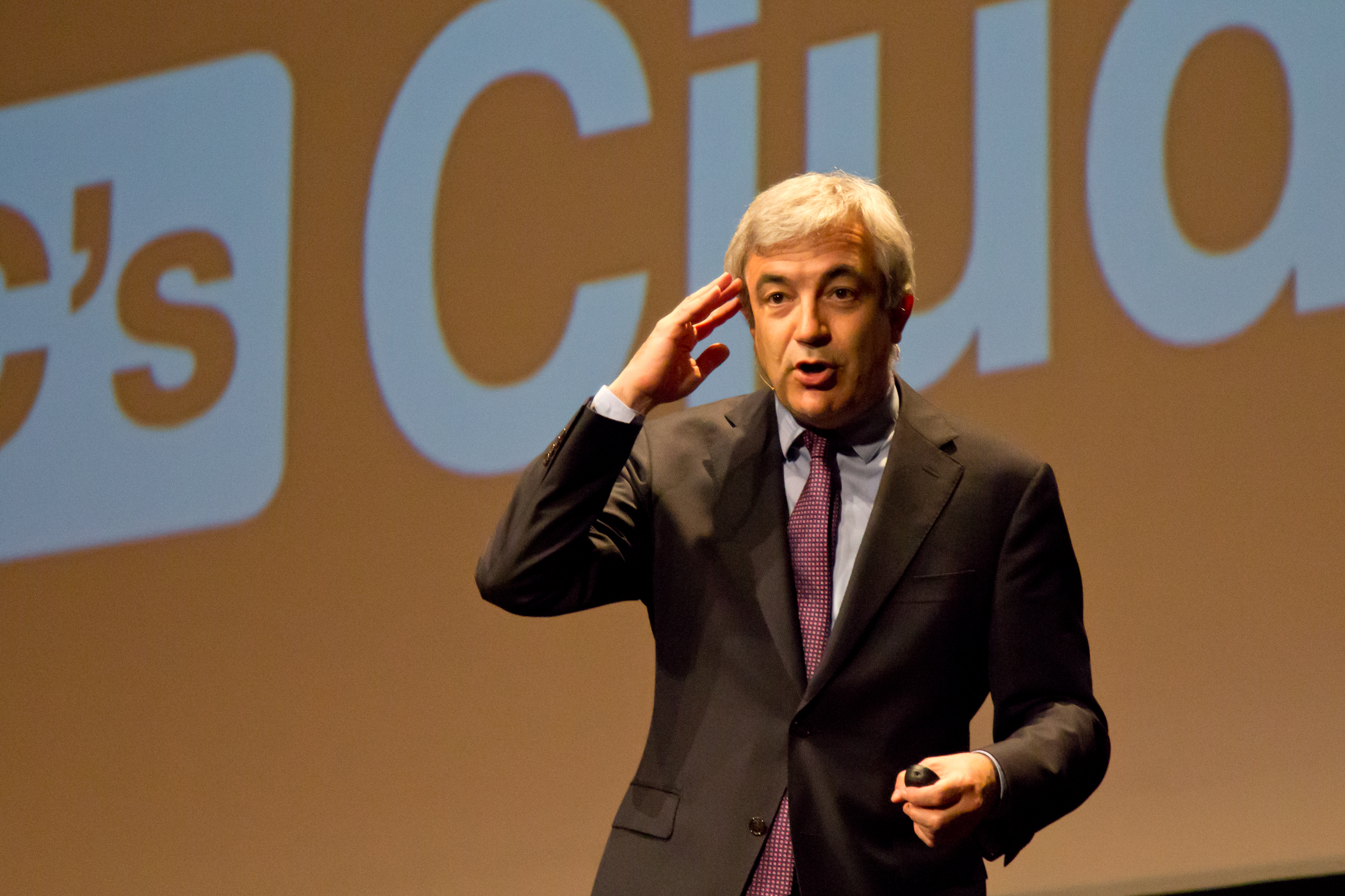 Spanish economist Luis Garicano at an event with Ciudadanos party.